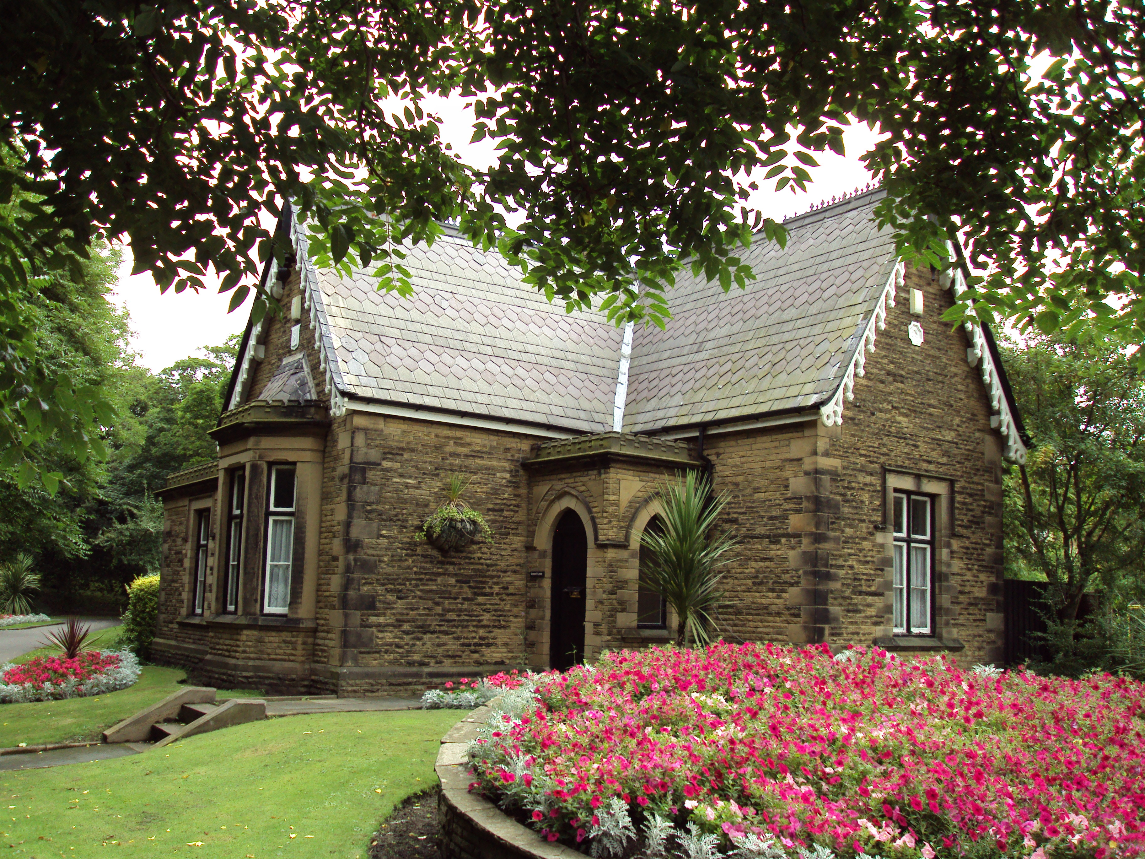 Queen's Lodge in Hesketh Park, Southport, Merseyside, England.